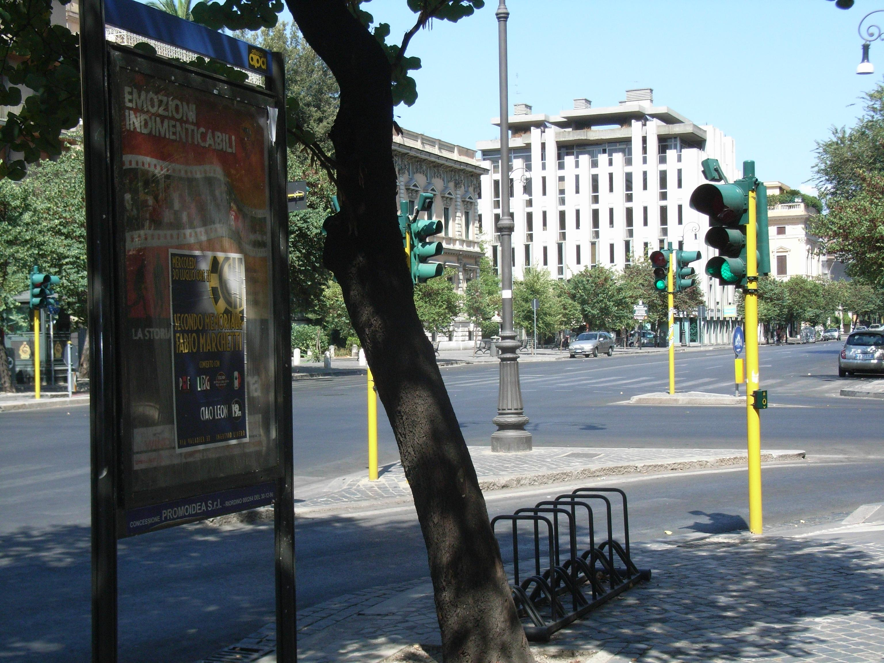 via e Piazza Cola di Rienzo